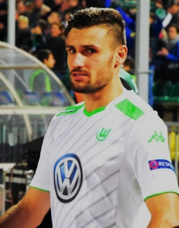 Daniel Caligiuri